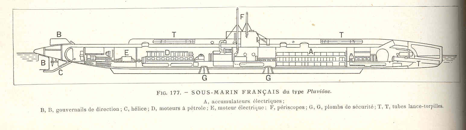 a, accumulateurs electriques; b, gouvernails de direction; c, helice; d, moteurs a petrole; e, moteur electrique; f, periscopes, g, plombs de securite; t, tubes lance-torpilles Subject: Submarines (Ships), Submarines (Ships)--Design and construction Tag: Vessels